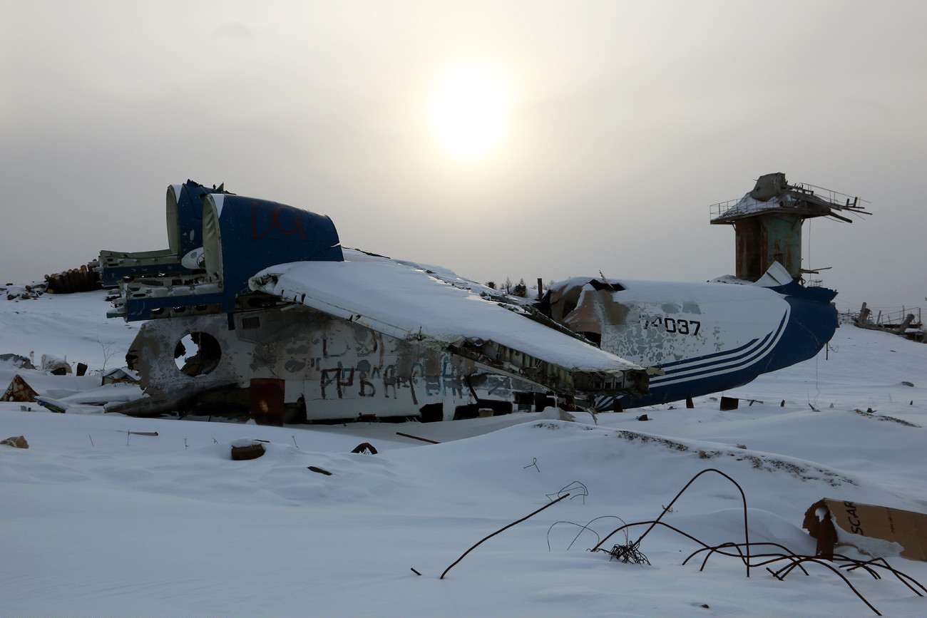 Remains of VostSibAero Antonov An-74-200 (RA-74037) at Mirny Airport. The aircraft was damaged beyond repair on 10 December 1996